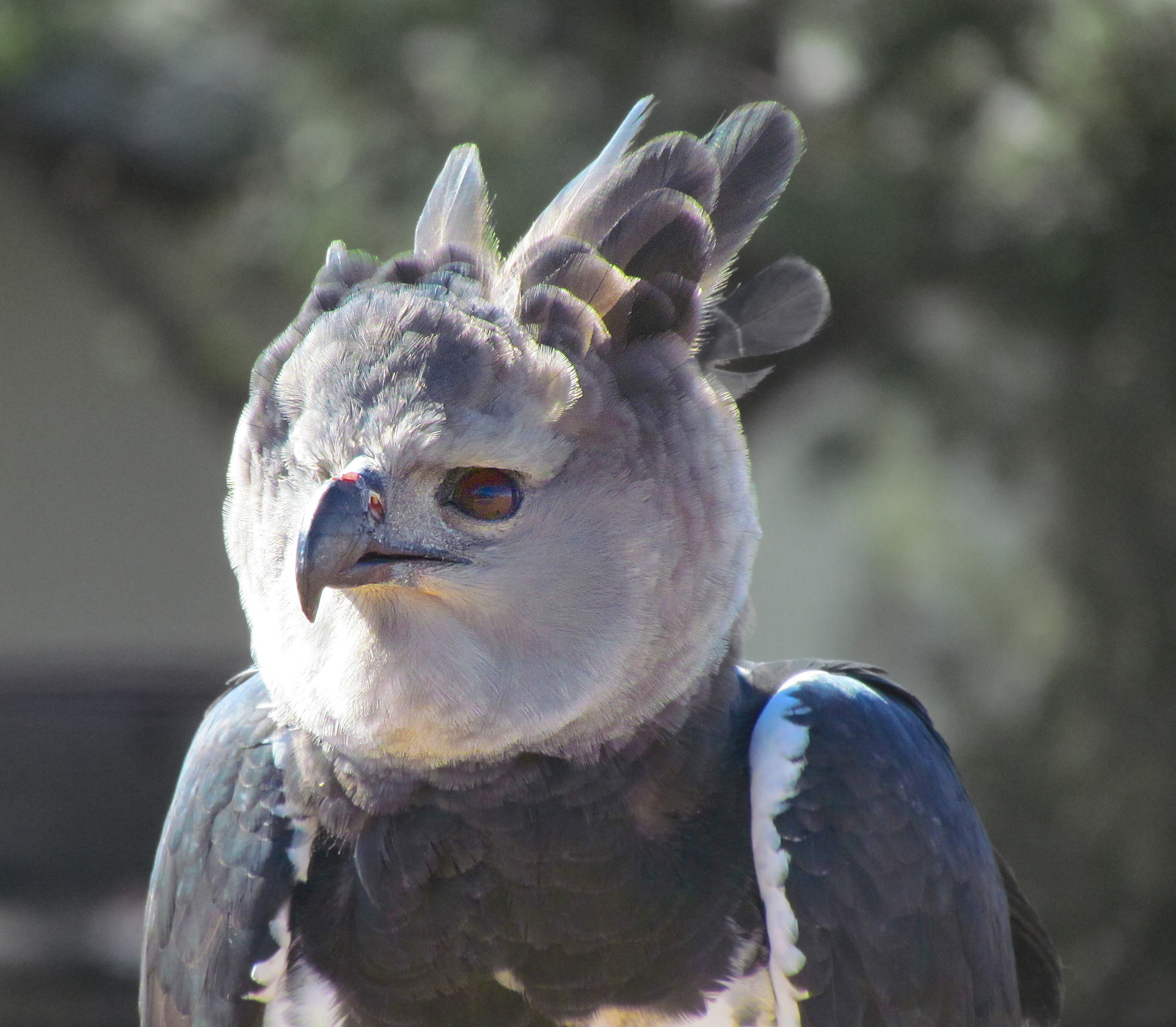 A Harpy Eagle in falconry.